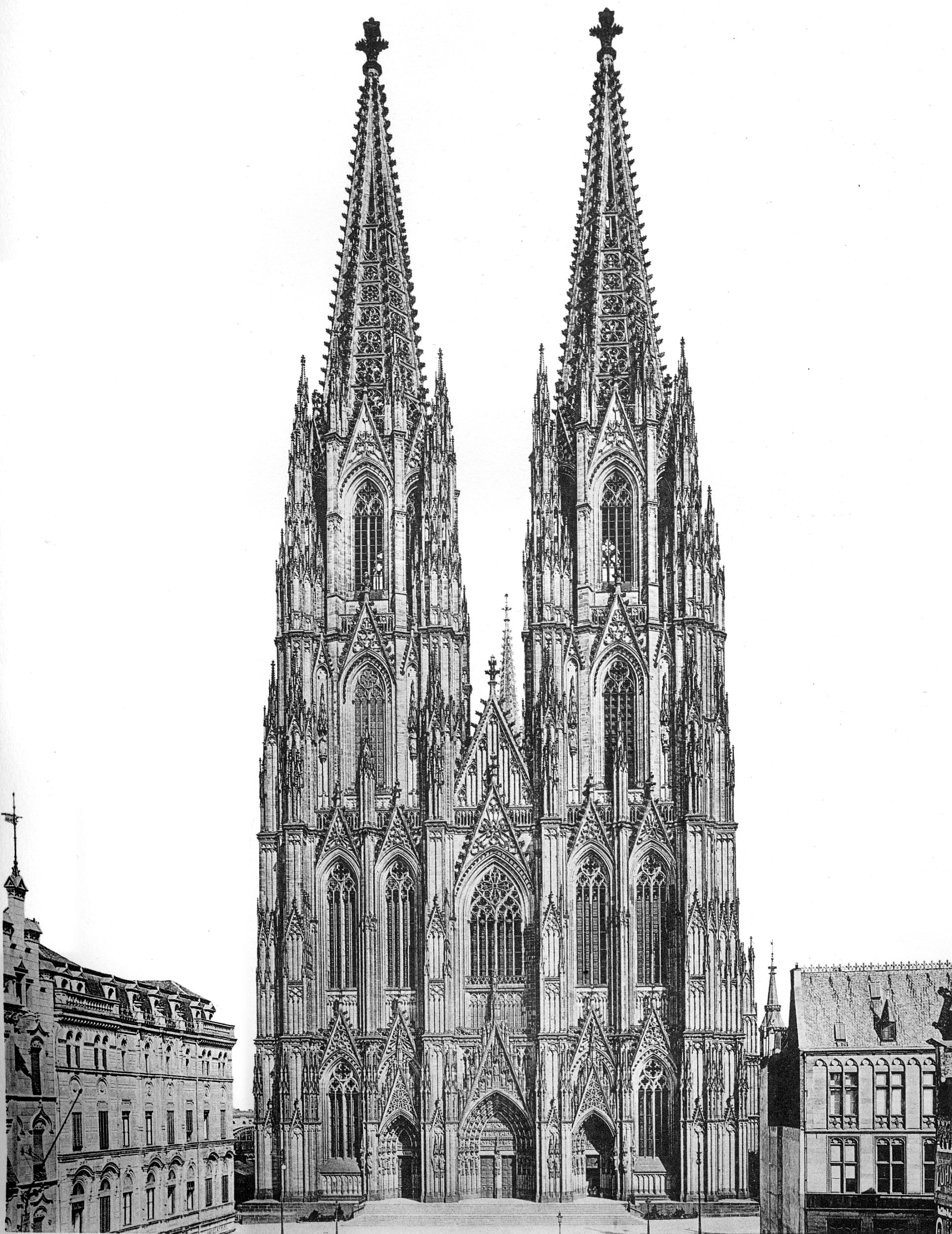 This is a scan of the historical document